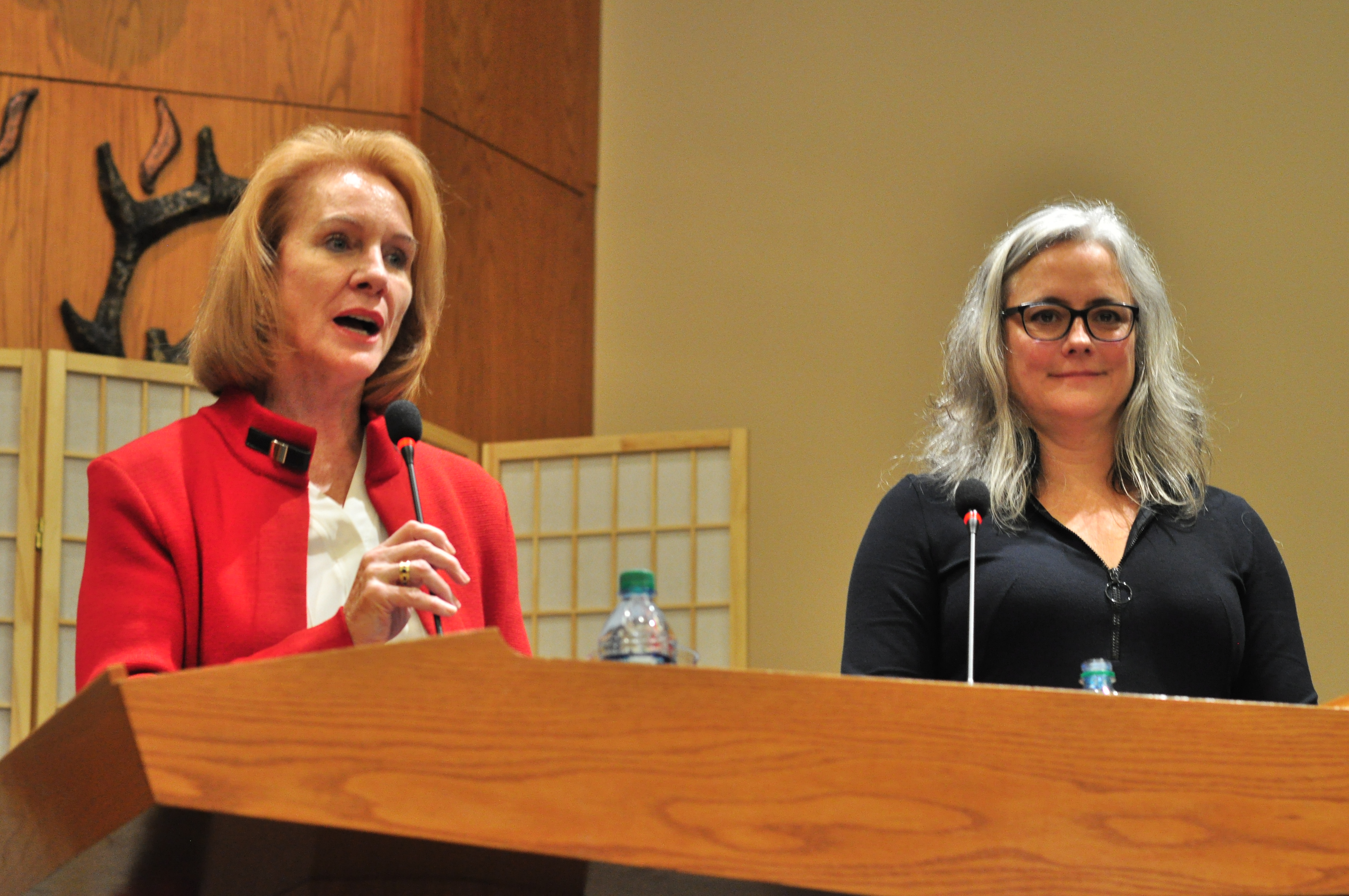 Seattle mayoral candidates Jenny Durkan (left) and Cary Moon debating at Congregation Beth Shalom, Seattle, Washington.